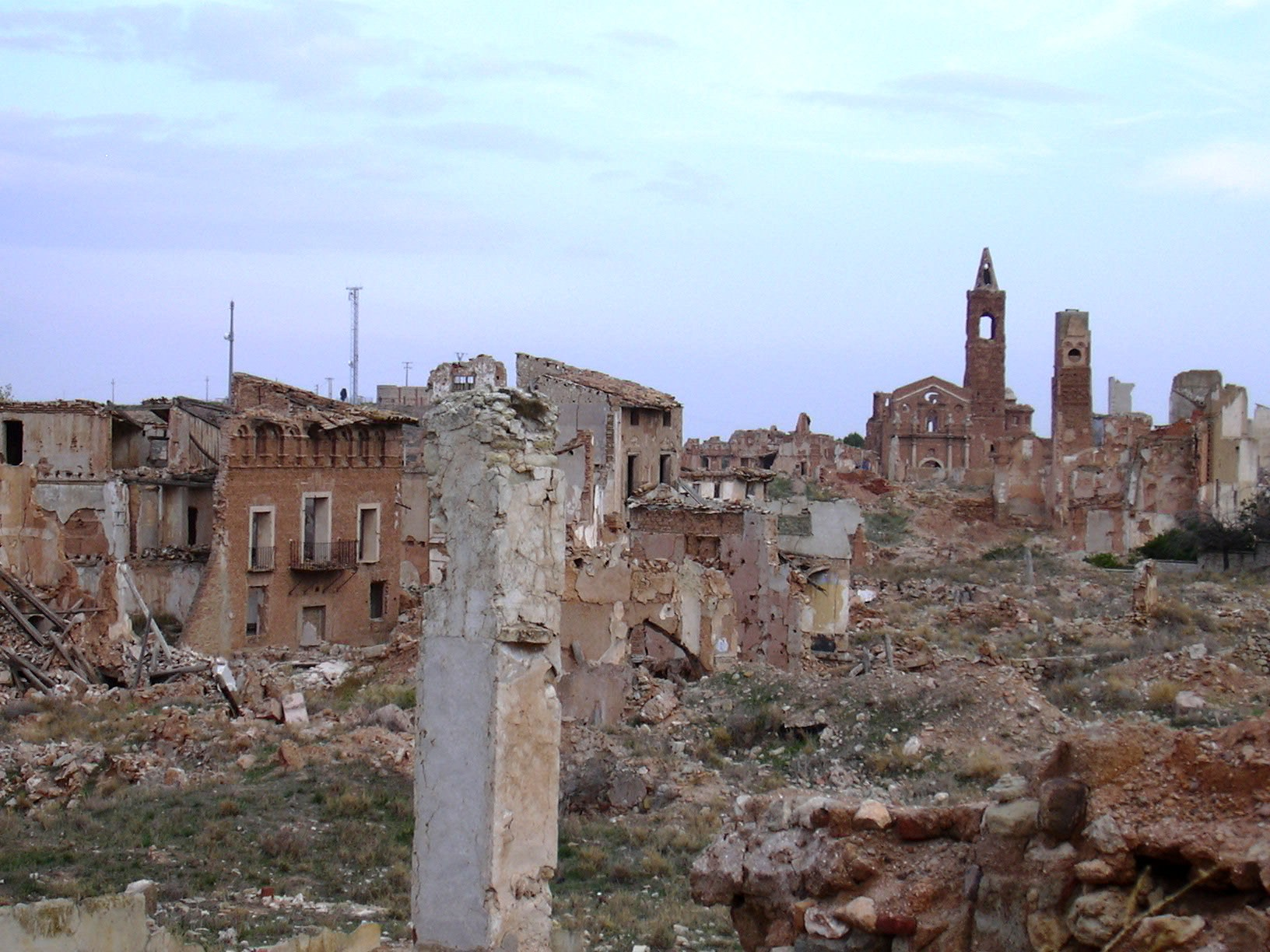 Belchite - Town in Aragon, Spain - Destroyed during the Spanish Civil War (1937), was not rebuild and stayed as monument